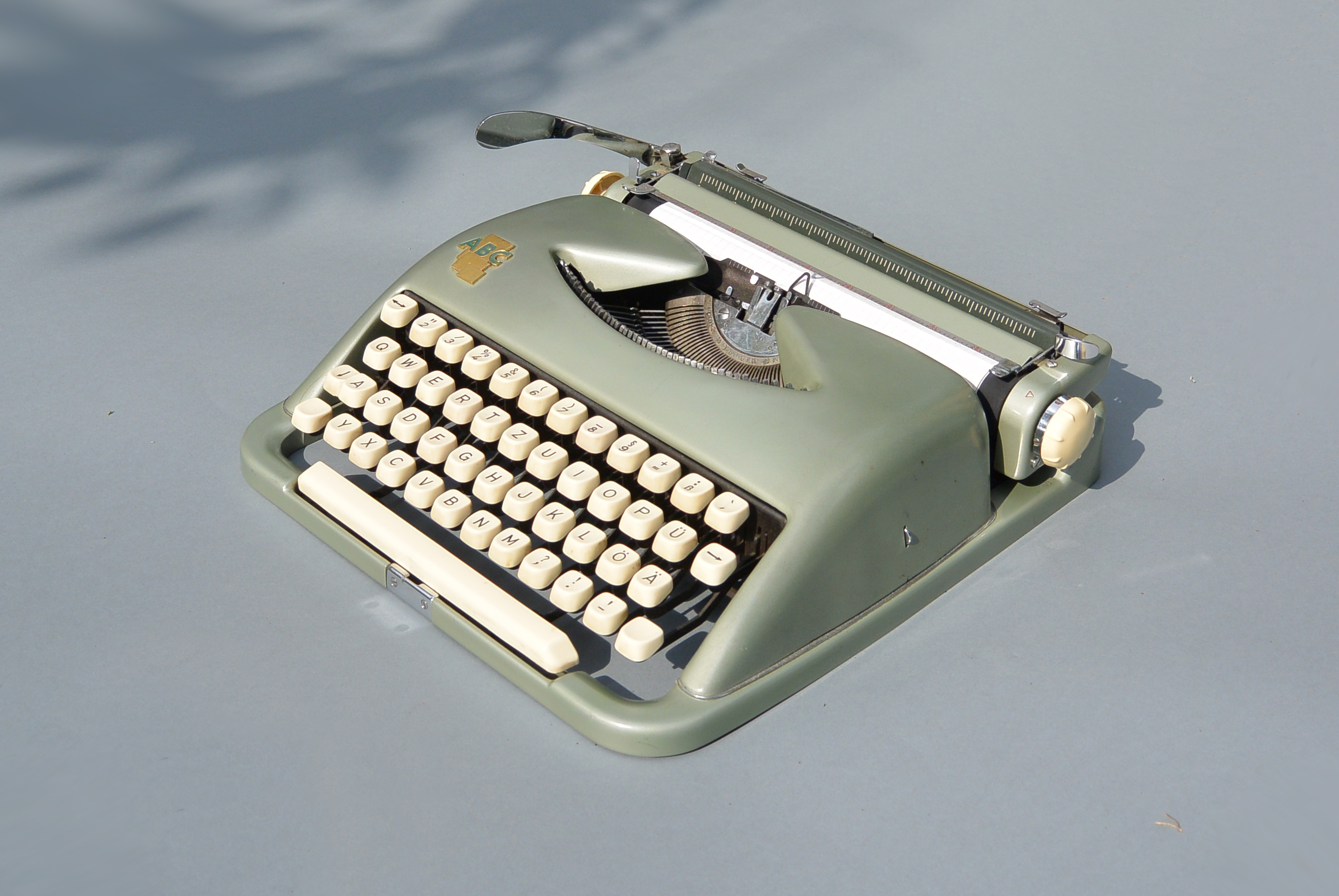 Typewriter designed by Wilhelm Wagenfeld